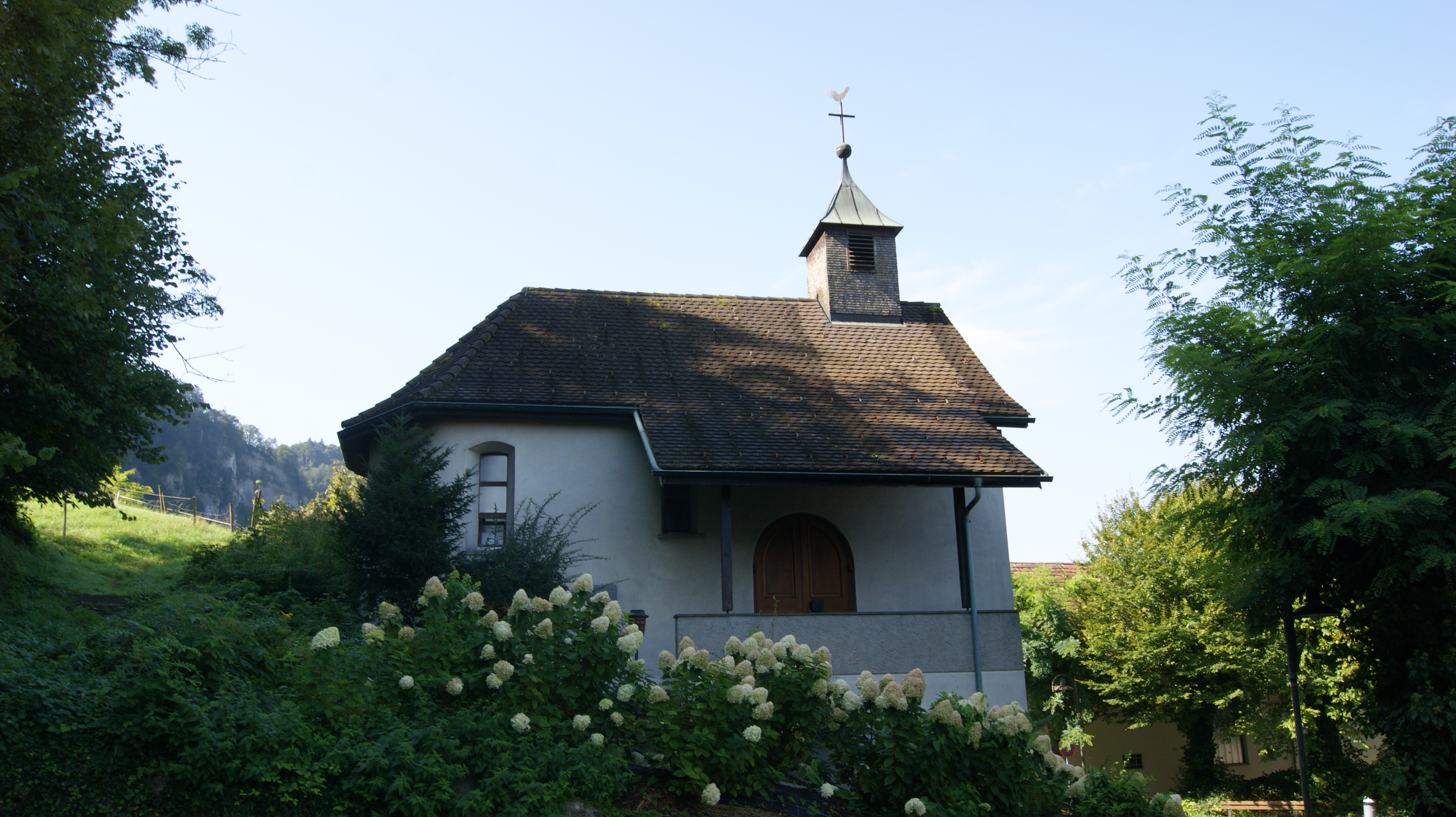 Local centre "Schwefel" in Hohenems, Vorarlberg, Austria. Sulfur Chapel, built in 1595, renovated: 1845, 1925, 1975.